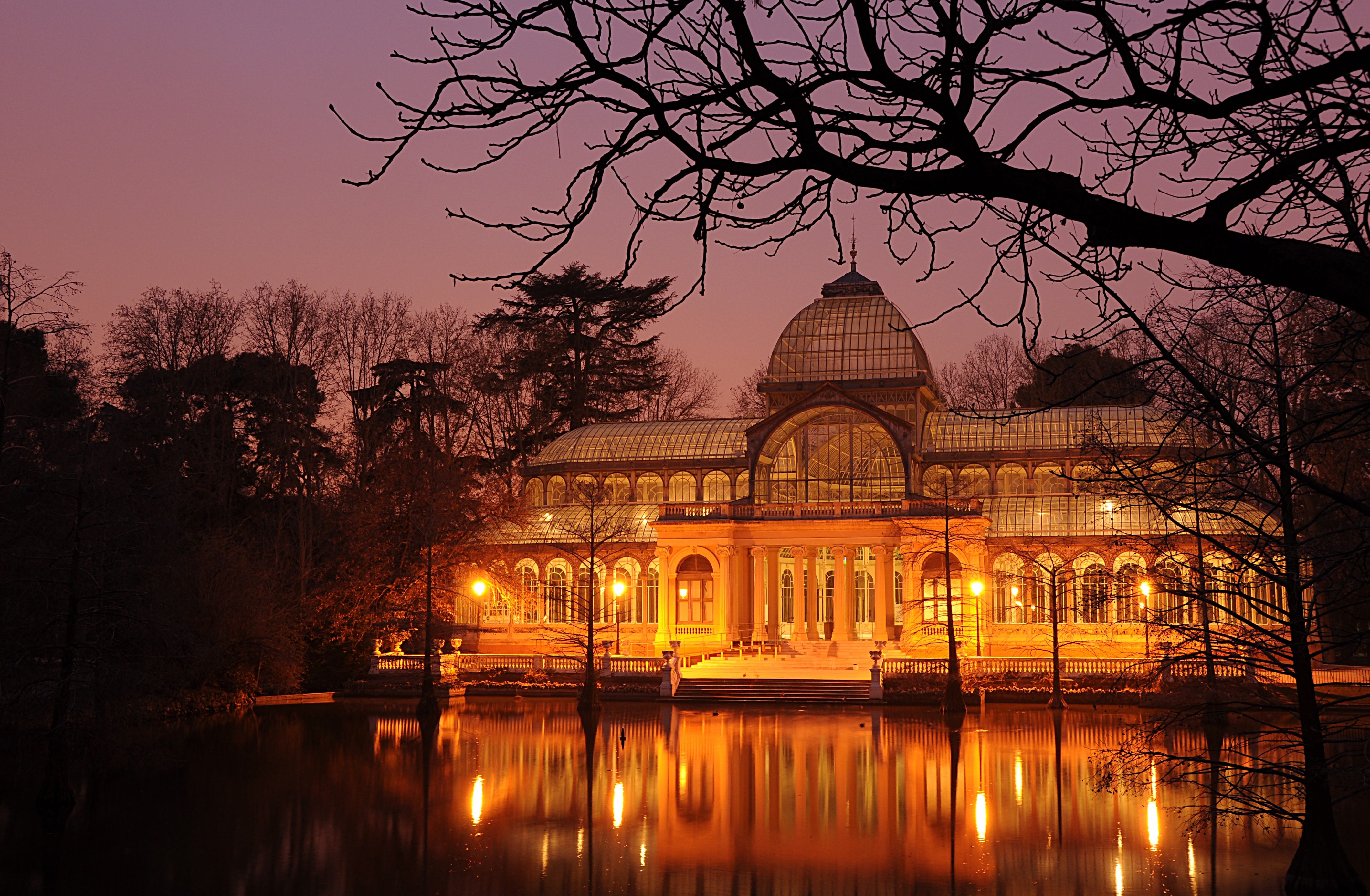 Night view of Palacio de Cristal ("Crystal Palace") in Retiro Park in Madrid (Spain).